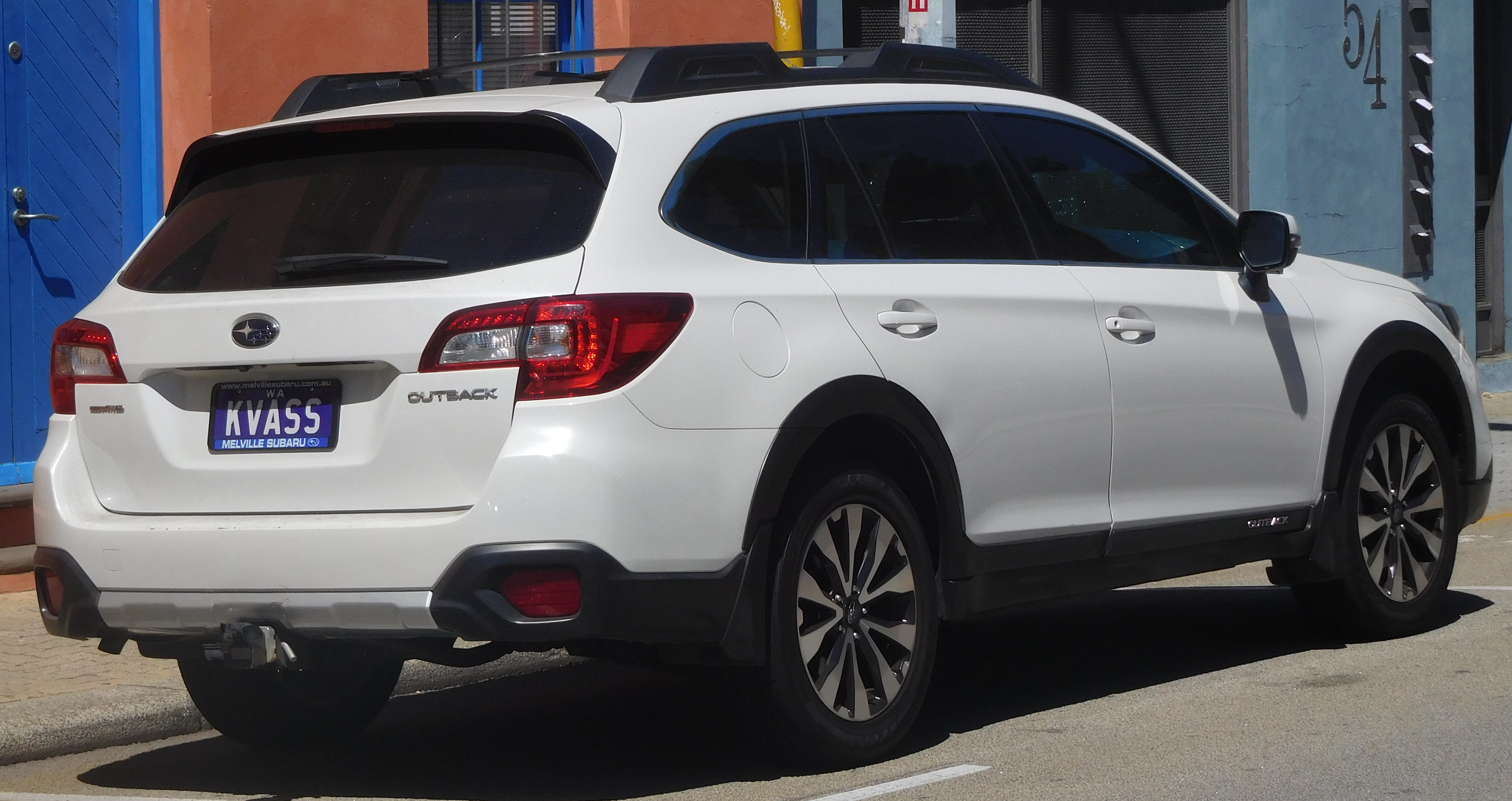 2015-2017 Subaru Outback (BS9) 2.5i Premium station wagon. Photographed in Fremantle, Western Australia, Australia.